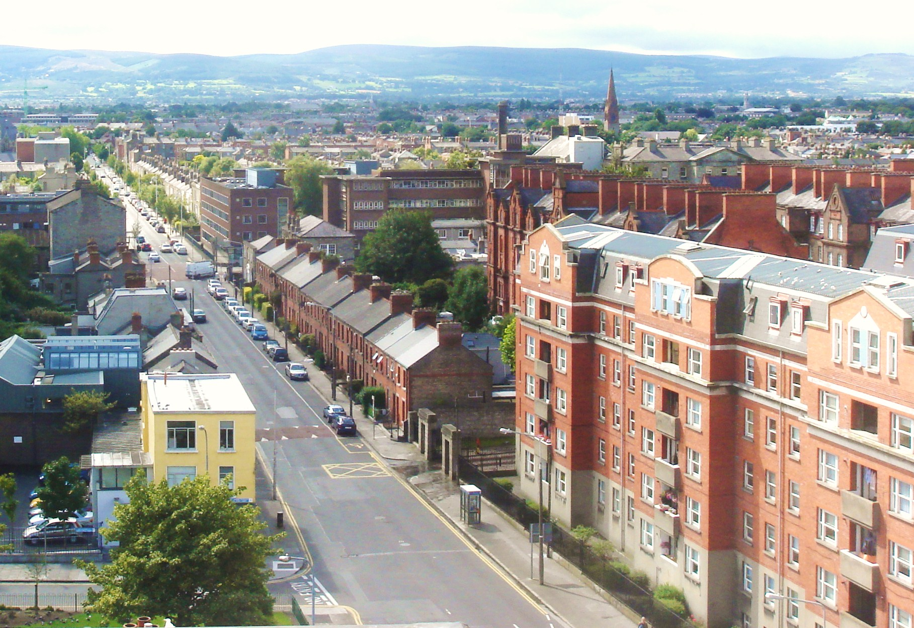 New Bride Street, Dublin, Ireland looking south from Kevin Street taken from the roof top of the National Archives of Ireland building on Bride Street